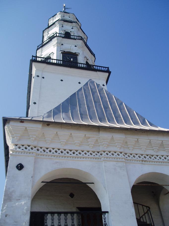 Nevyansk tower in Sverdlovsk oblast, Russia: View upwards from the ground